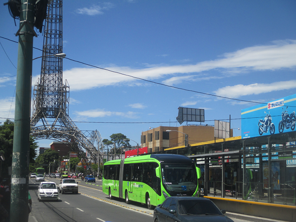 Transmetro en la Ciudad de Guatemala